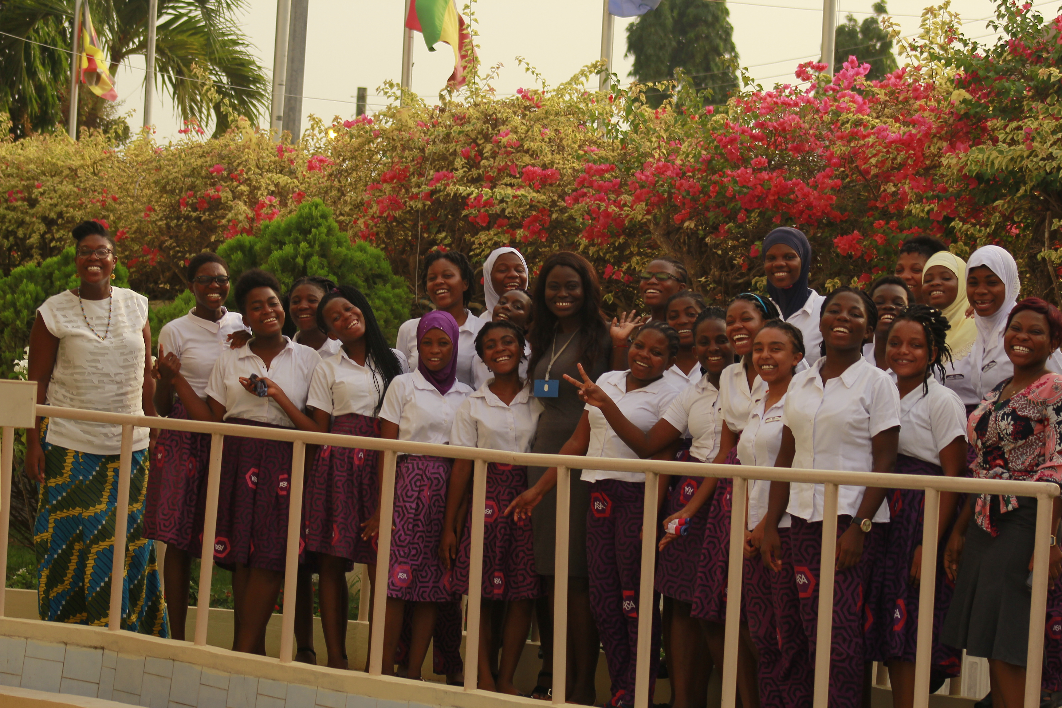 Wikipedia training at Africa Science Academy, Ghana, Tema after kiwix installation.